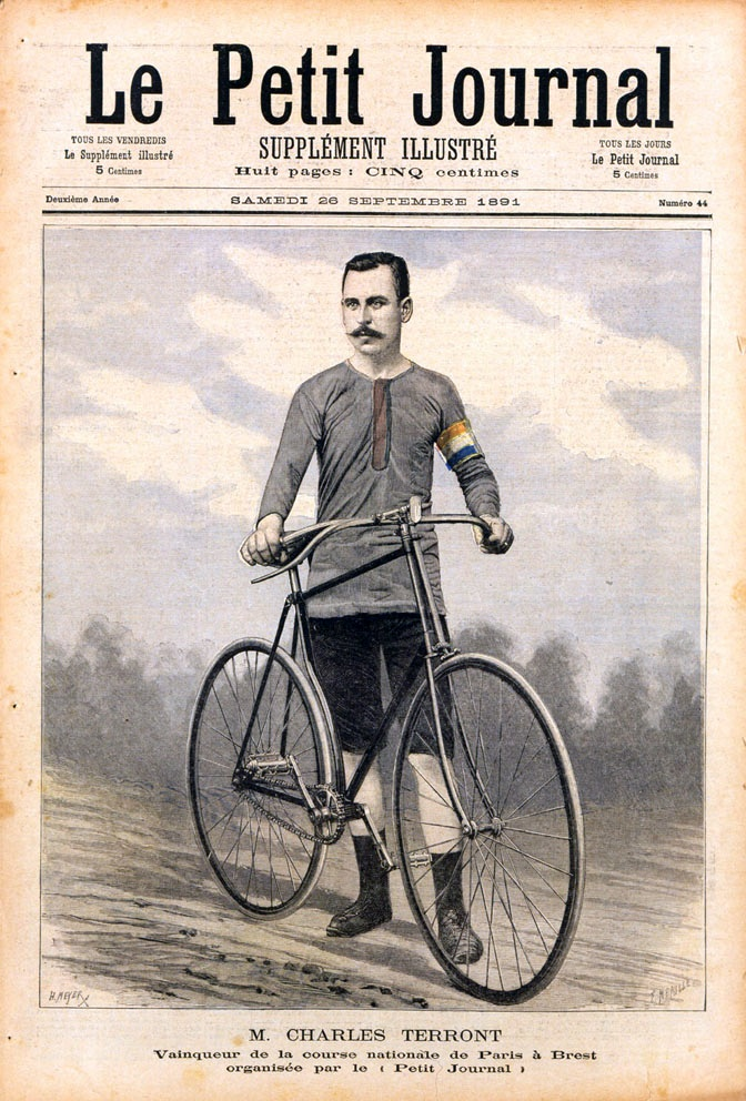 Charles Terront, winner of the first Paris-Brest-Paris (1891), in the organising paper "Le Petit Journal".